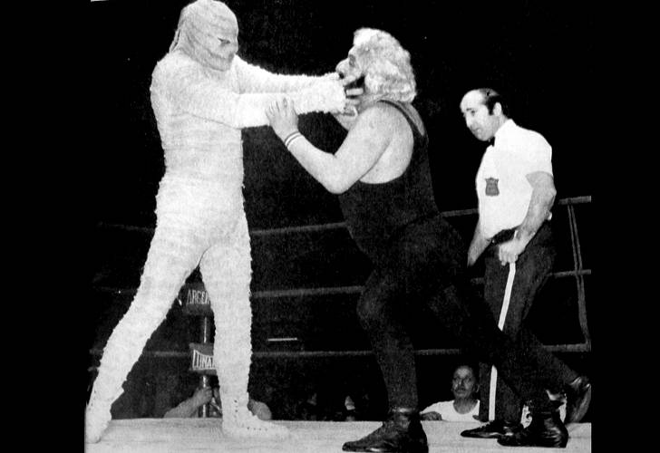 Martín Karadagián se enfrenta a La Momia